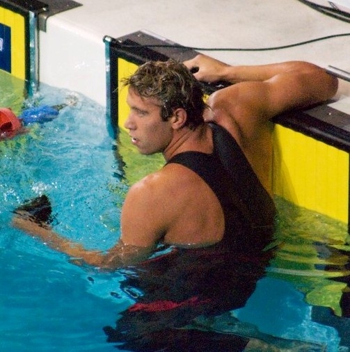 American swimmer Matt Grevers participates in the 2009 ConocoPhillips National Championships & World Championship Trials in Indianapolis, Indiana, USA, on July 10, 2009 at the Indiana University Natatorium.